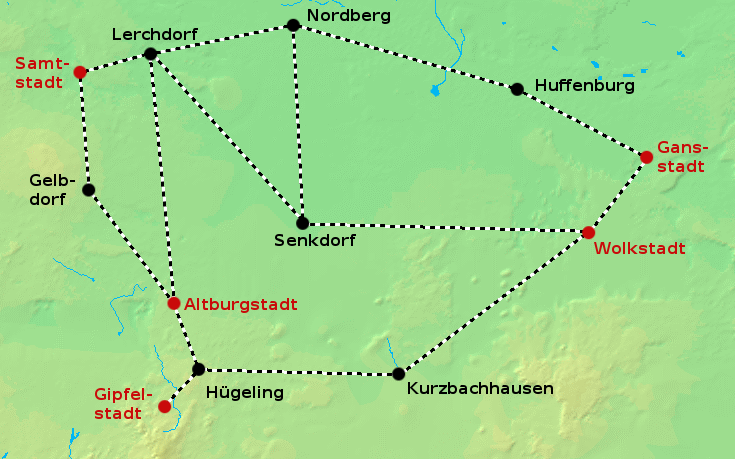 Map of the rail network of a fictional country, as an example for the Steiner tree problem. Cities are marked red, villages are black.